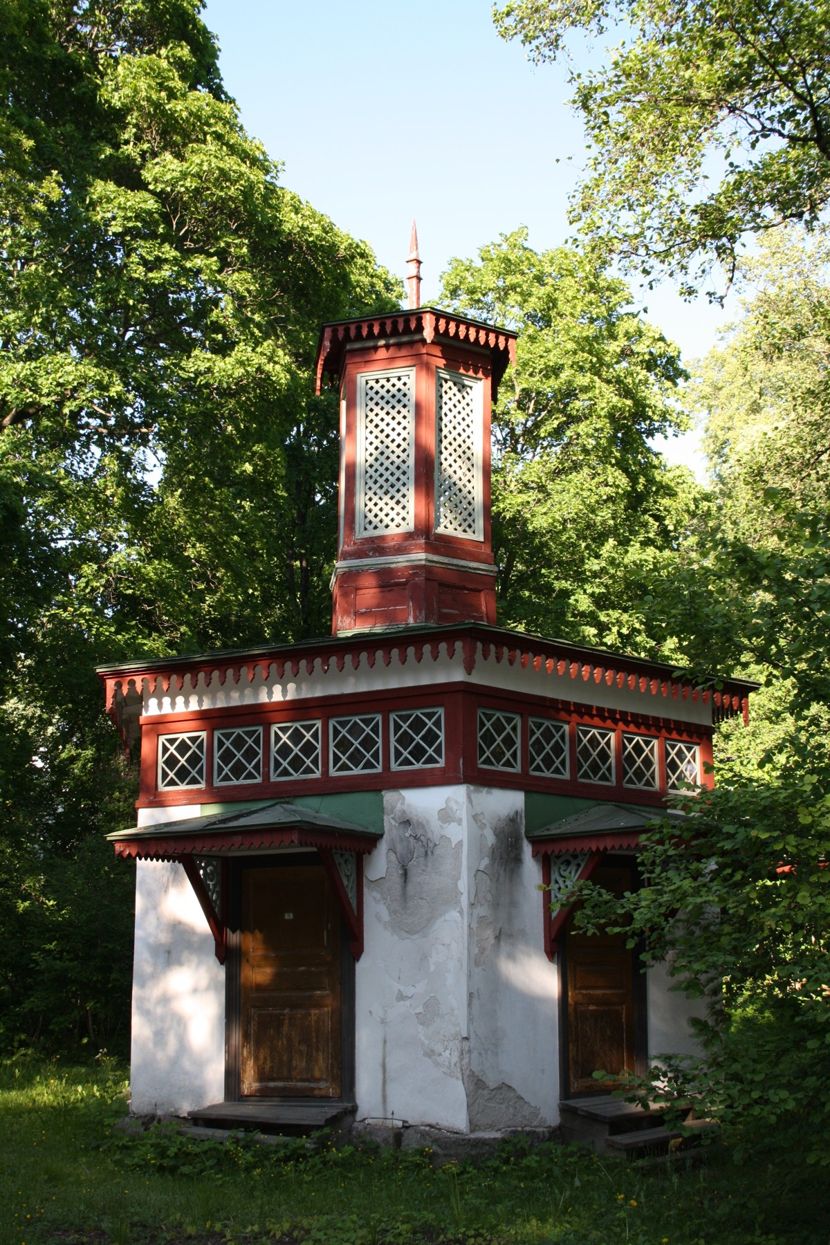 The Emperor's latrine. Träskända manor, Espoo, Finland. Place of accomodation erected for a visit by czar Alexander II of Russia at Träskända manor. Architect: G. T. von Chiewitz